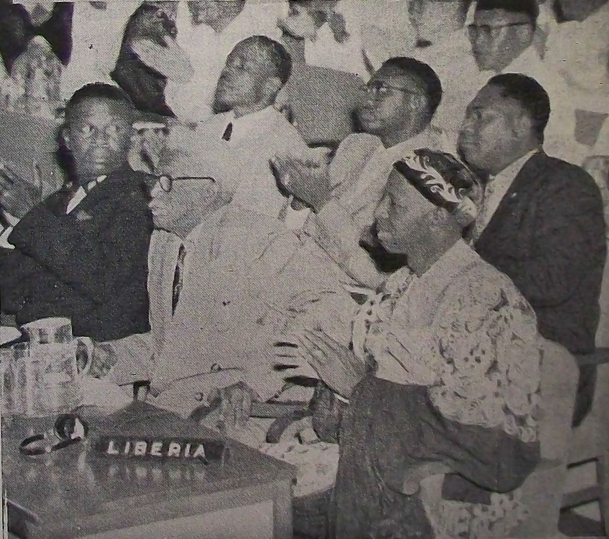 Momolu Dukuly (in front) as a delegate of Liberia in the Bandung Conference, 1955.